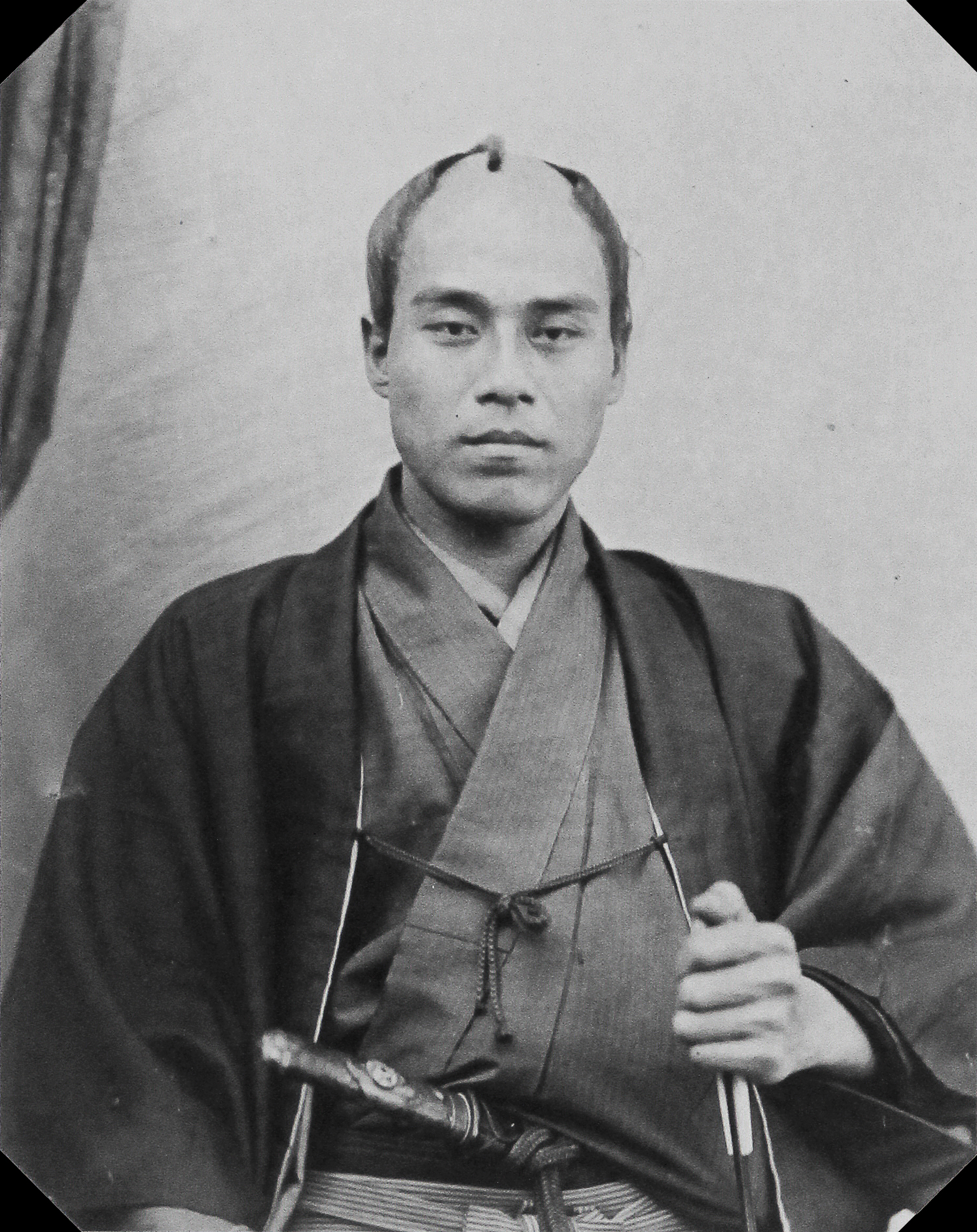 Fukuzawa Yukichi. Photograph taken during his trip to Paris in 1862.